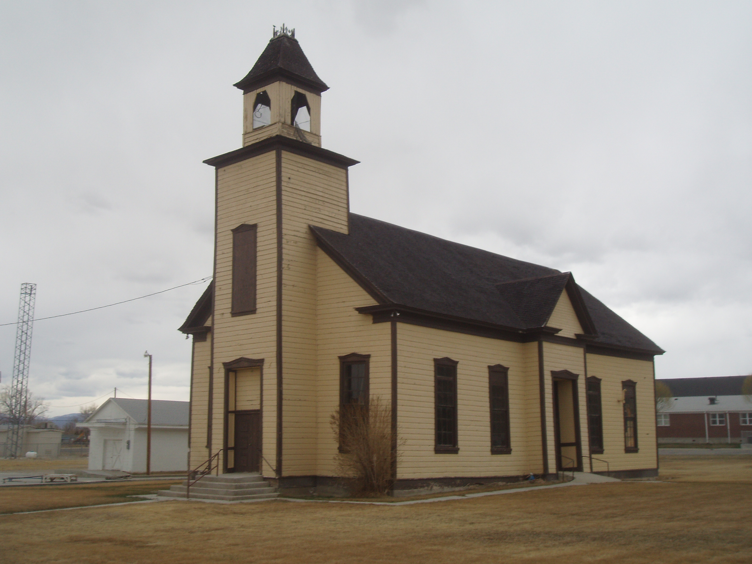 Emery LDS Church, built 1898–1900 by The Church of Jesus Christ of Latter-day Saints, is the oldest surviving religious building in the town of Emery, Utah, United States.